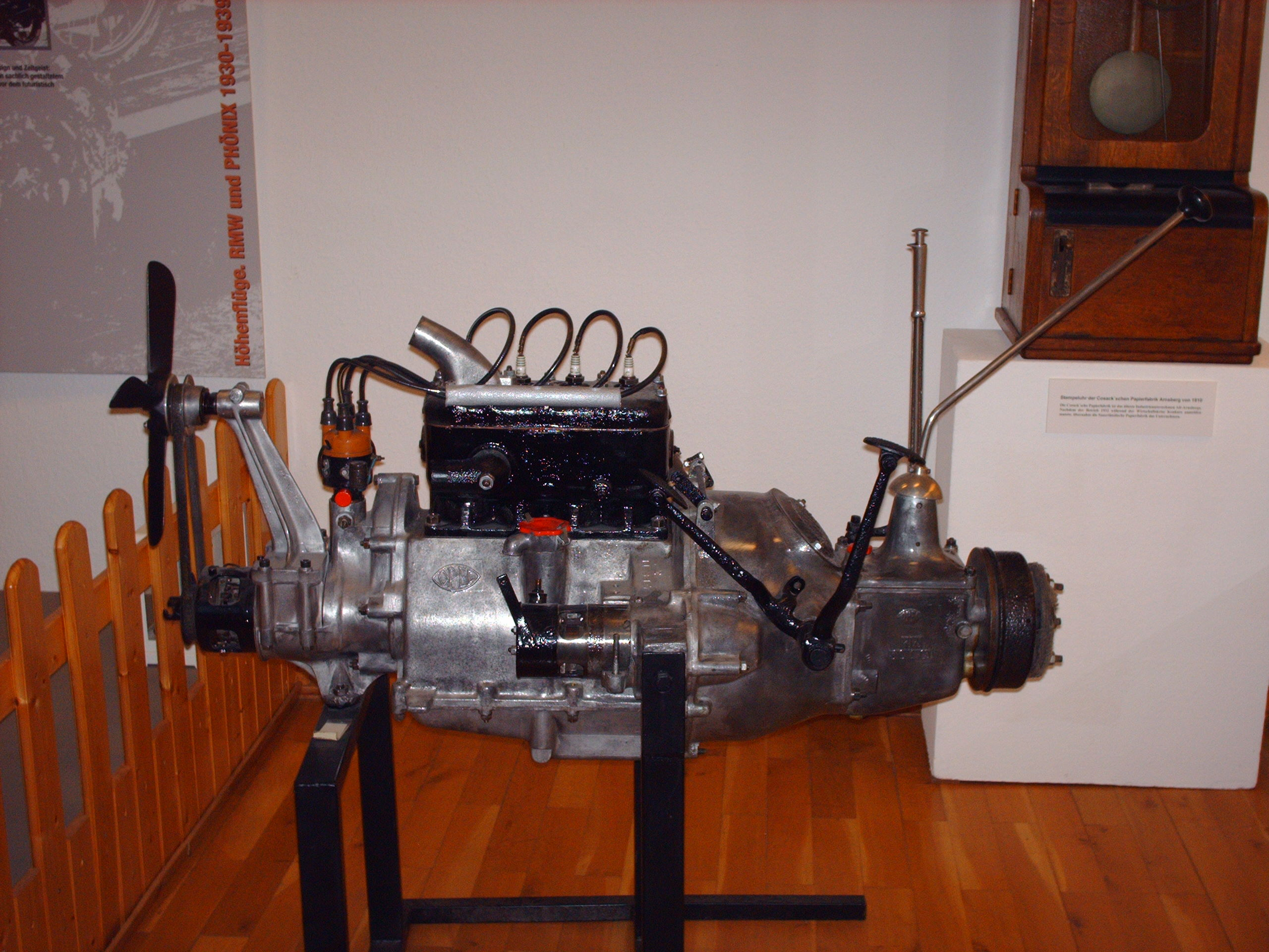 Opel motor (1920s) by Honsel, Arnsberg, Germany check usage